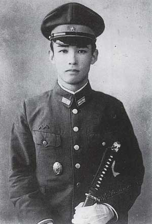 Captain Yoshihiko Yajima (1917-1939). This picture was taken when he was promoted second lieutenant. Kild in action against soviet planes during the khalkhin Gol battle, on 08/25/1939